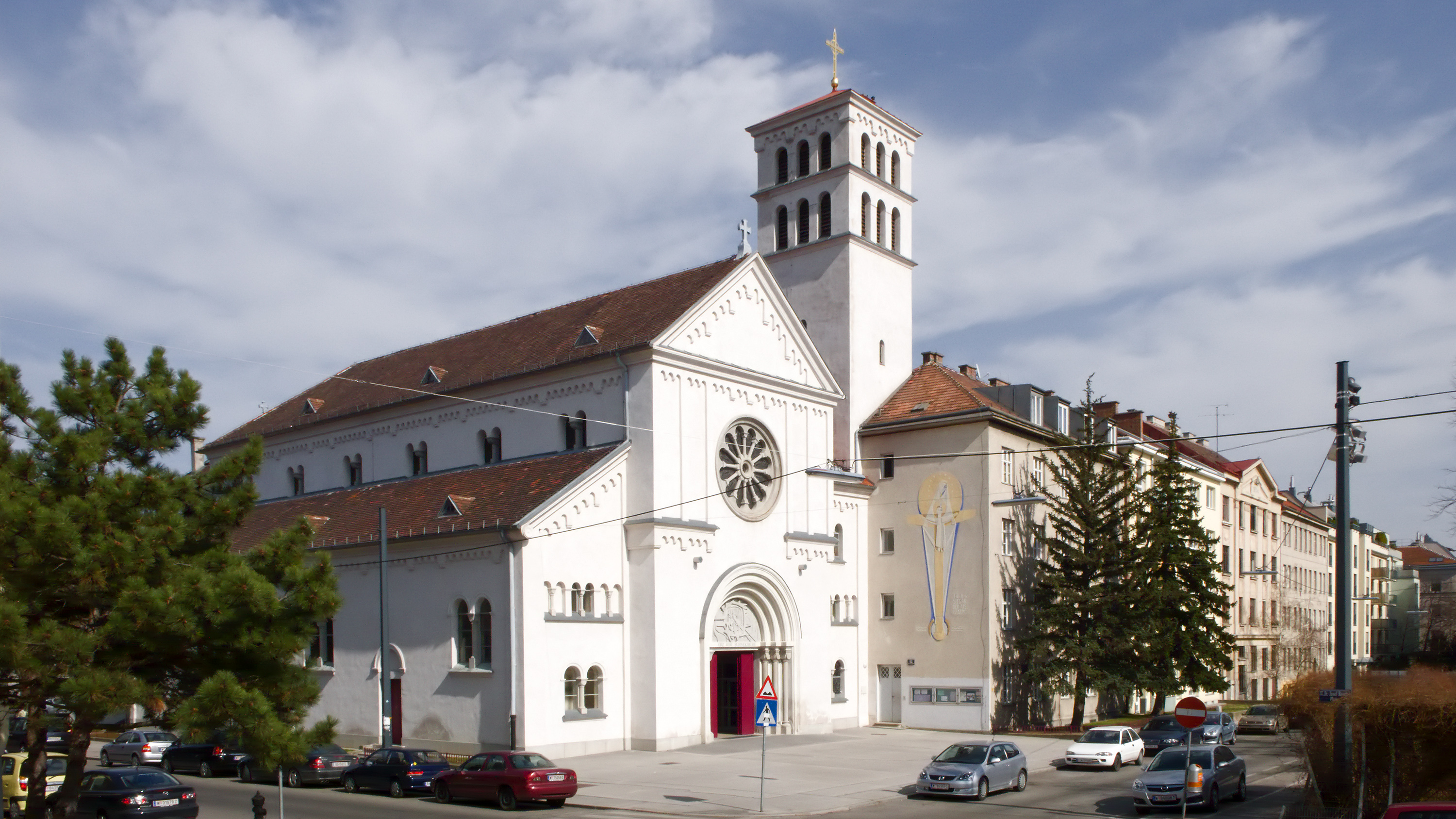 Herz-Jesu-Sühnekirche (Wien) in Vienna Hernals